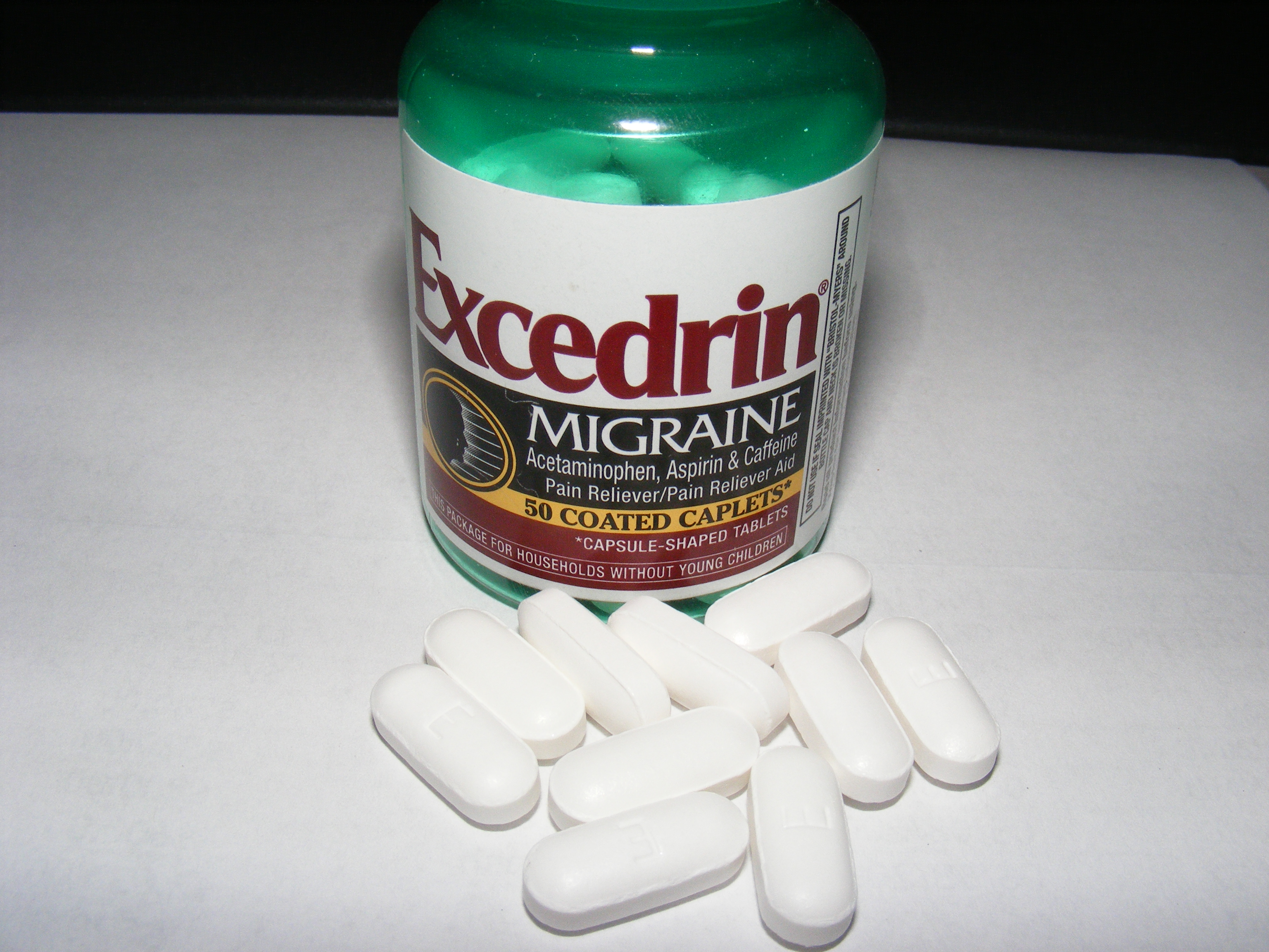 A bottle of Excedrin's migraine formula. Taken by myself today with a FinePix S700.